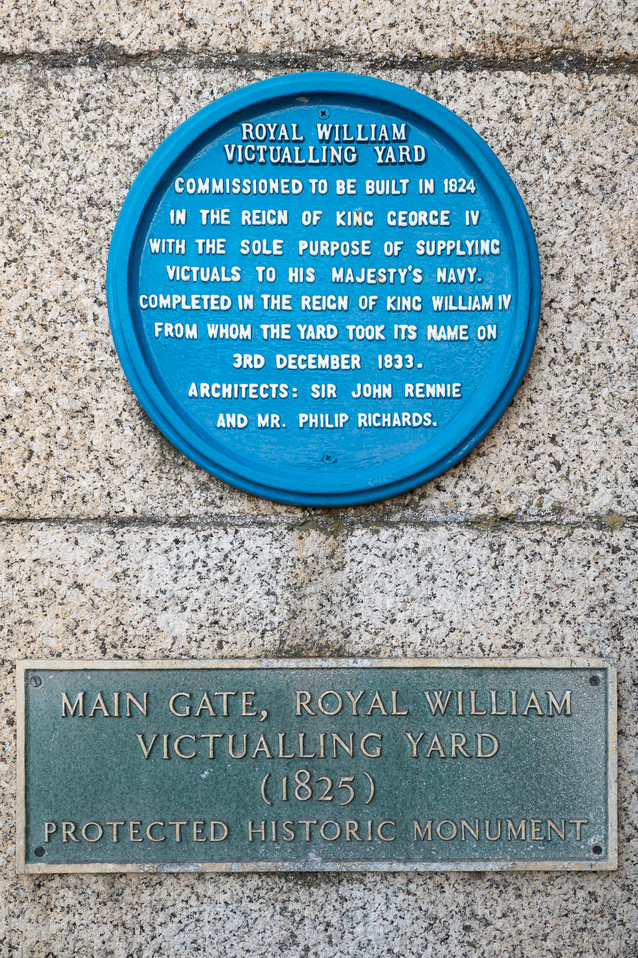 Blue plaque and main gate plaque beside the entrance to the Grade I listed Royal William Yard in Plymouth.